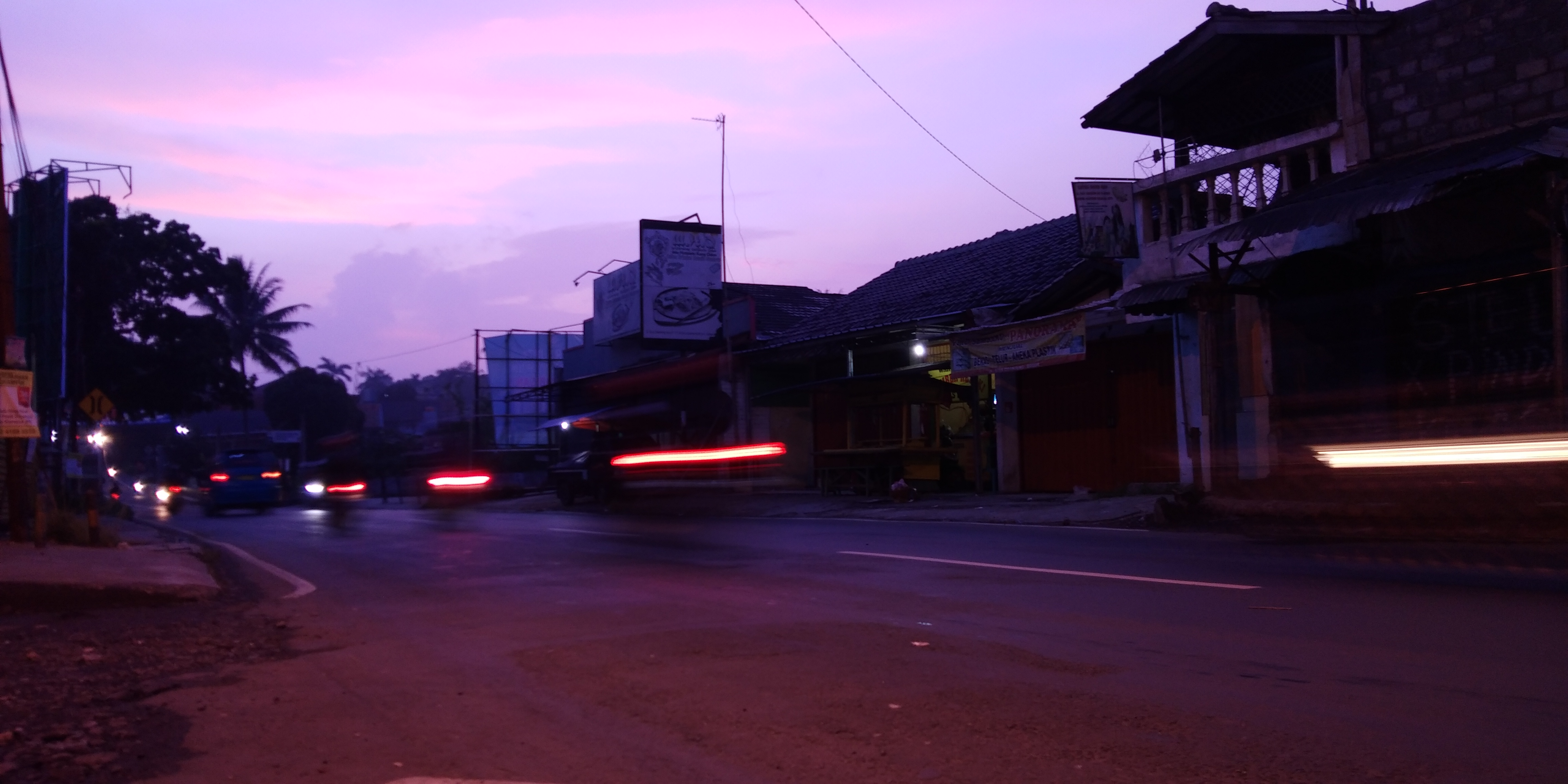 Cibadak-Ciampea Rd., a main road in Dramaga and Ciampea, Bogor Regency, West Java, Indonesia. Part of Nat. Route 11. Taken at dawn in Cibanteng, Ciampea.